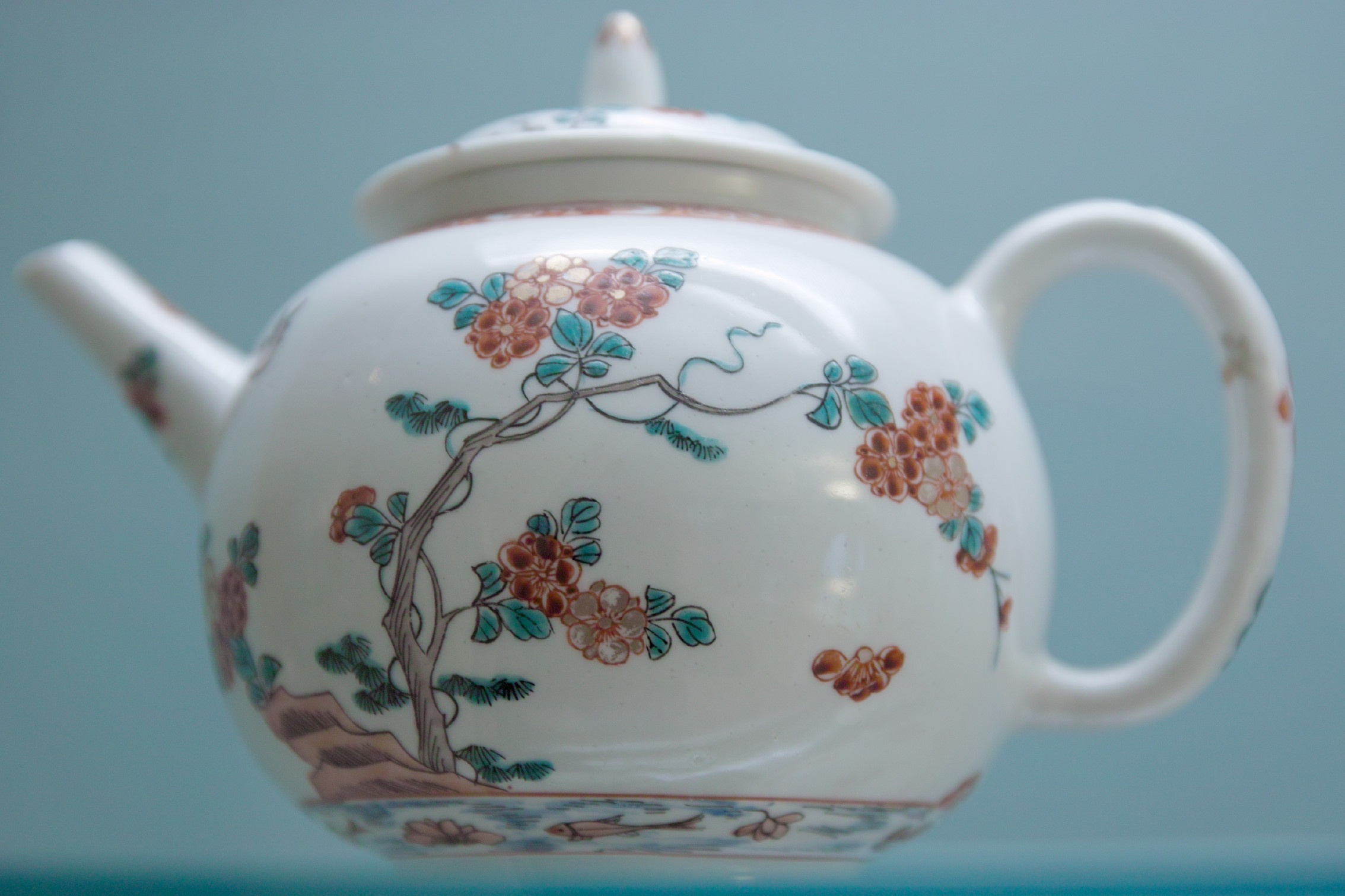 Prozellan Meissen bemalt im Stil des Kakiemon. Museum für Kunst und Gewerbe, Hamburg. "Teekanne mit blühendem Aprikosenbaum. Porzellan: Meissen, um 1725. Hausmalerei: Delft, nach 1730."